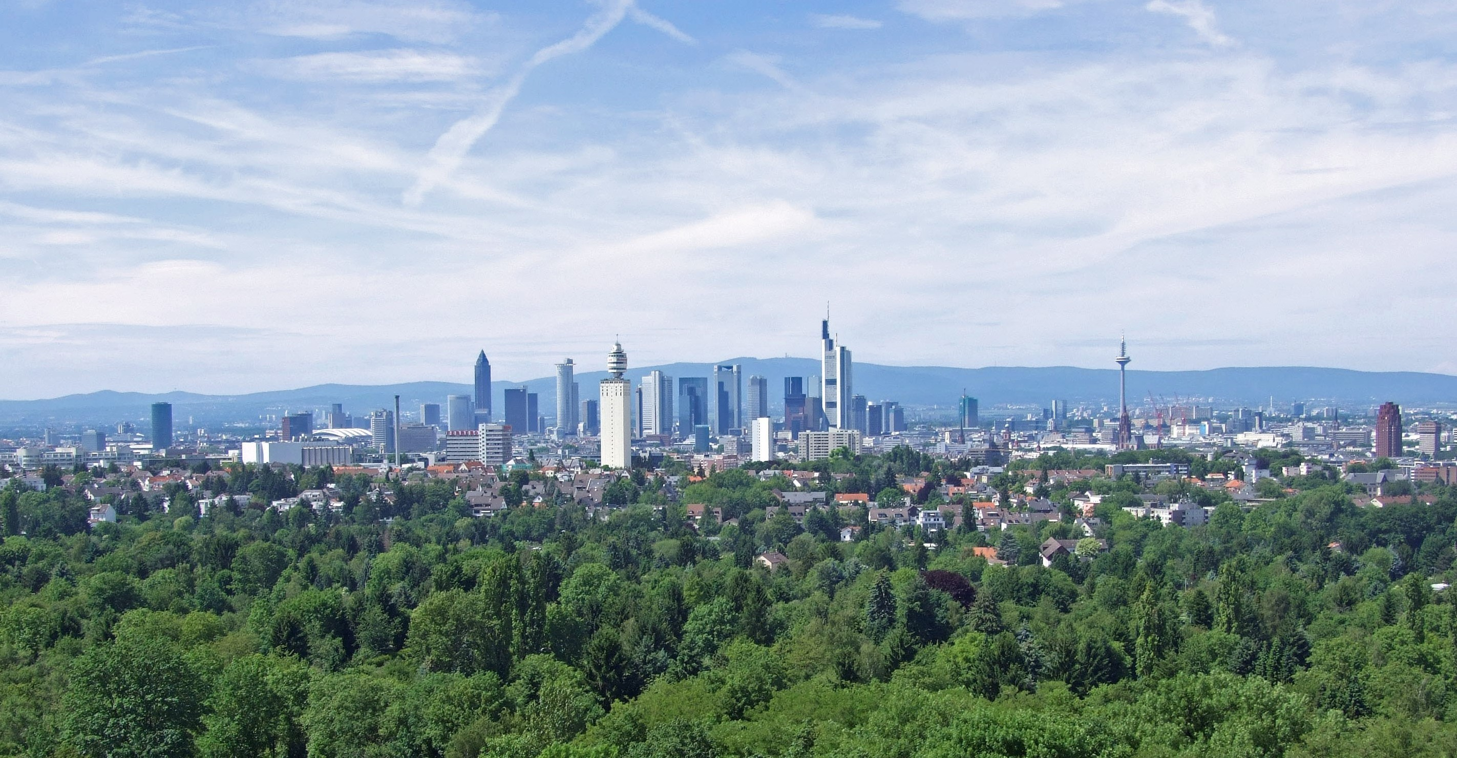 The skyline of Frankfurt-am-Main, Germany, viewn from south, from the tower Goetheturm (destroyed in 2017). In the foreground a part of the city’s municipal forest, Frankfurter Stadtwald. In the background some of the regional hills of Hesse, the Taunus. The large houses on either side of the photo – the Westhafen Tower on the left and the Main Plaza Tower on the far right (please refer to the accompanying image notes) – mark the path of the river Main through the city from east to west.